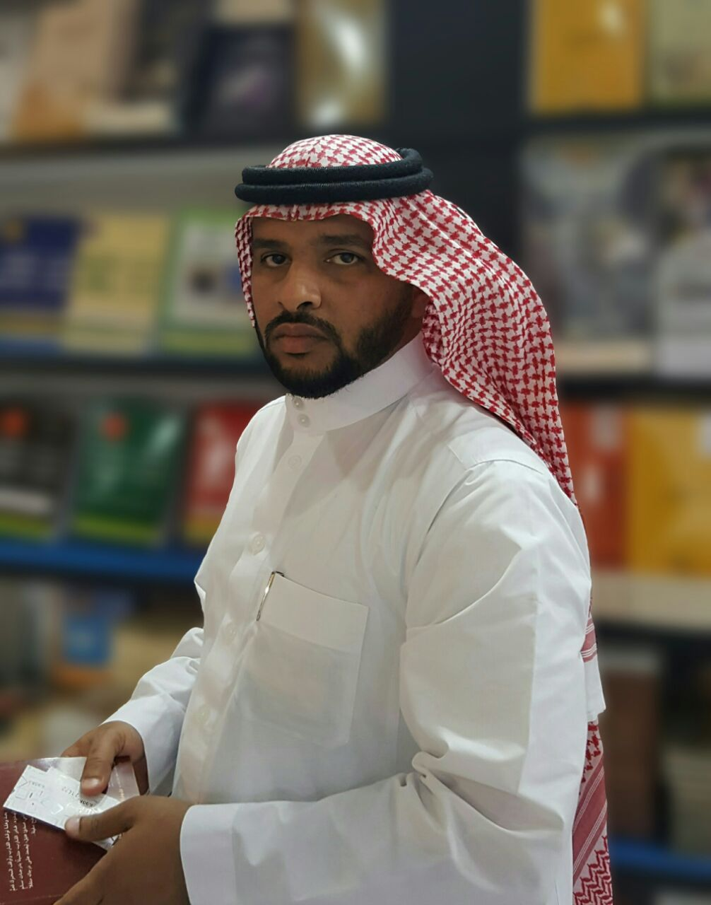 Mr. Taher Alzahran